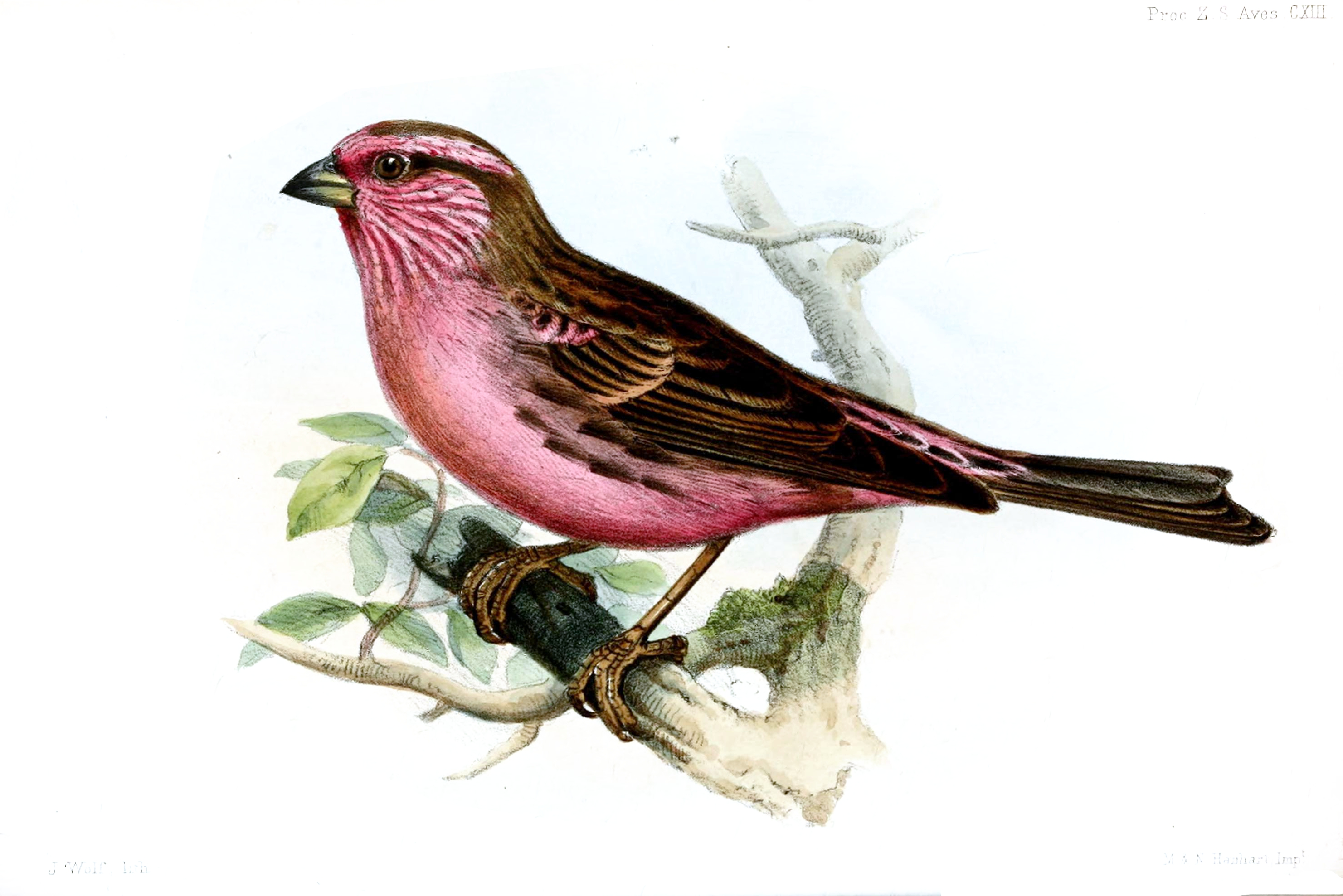 Propasser thura male